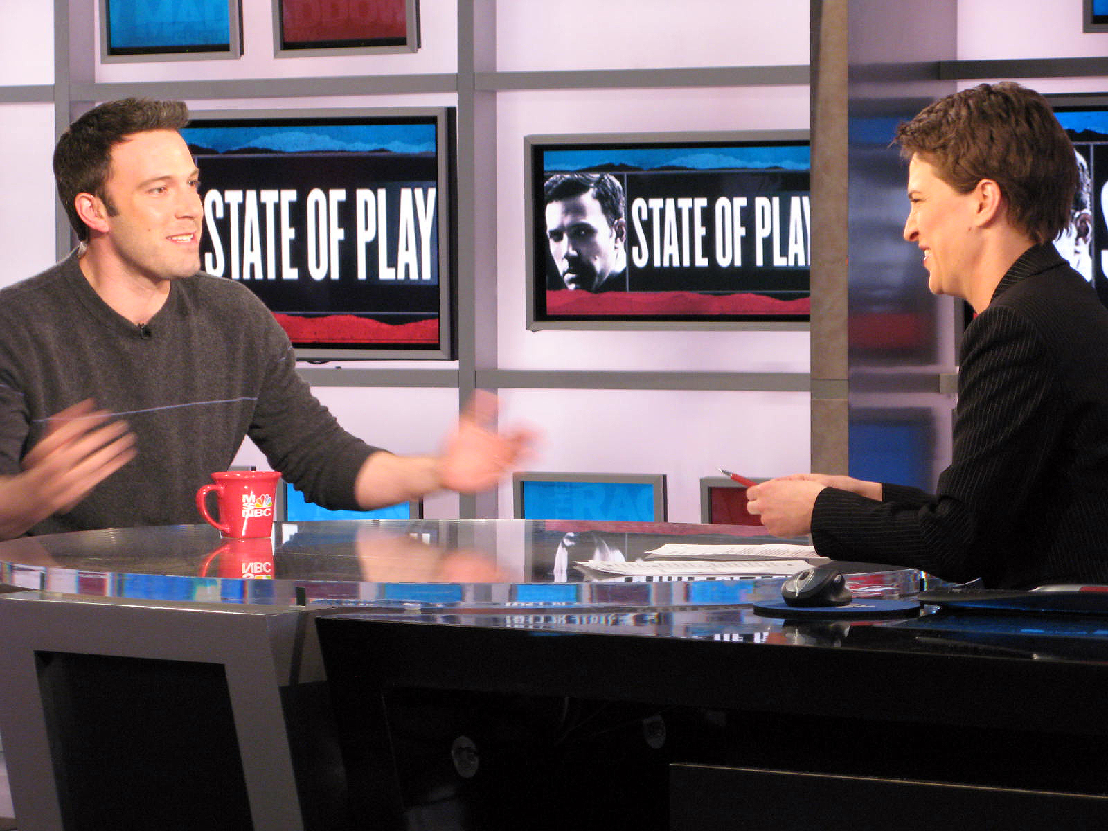 Ben Affleck at the MSNBC studios on the set of The Rachel Maddow Show